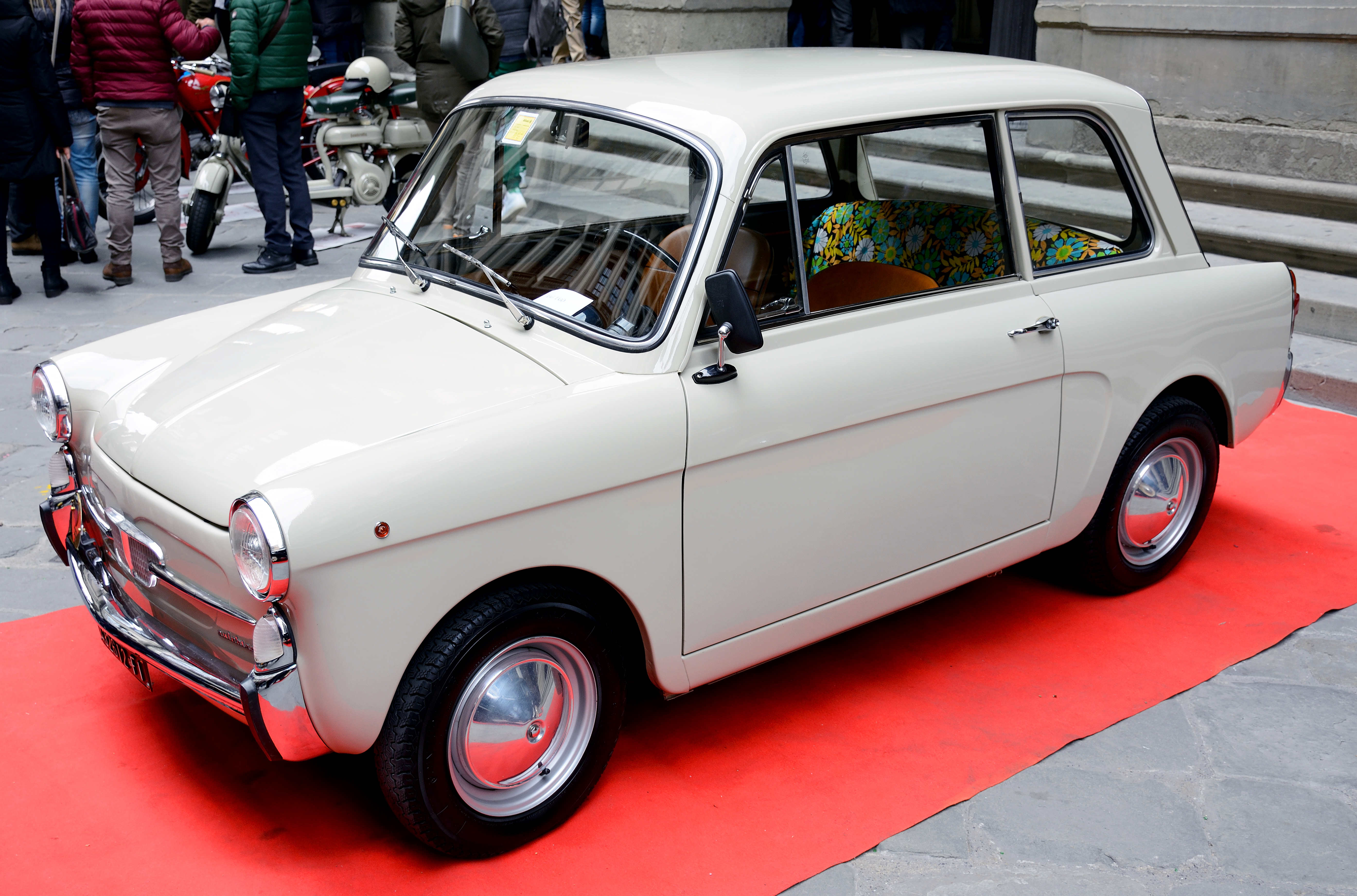 Autobianchi Bianchina Berlina Bianca